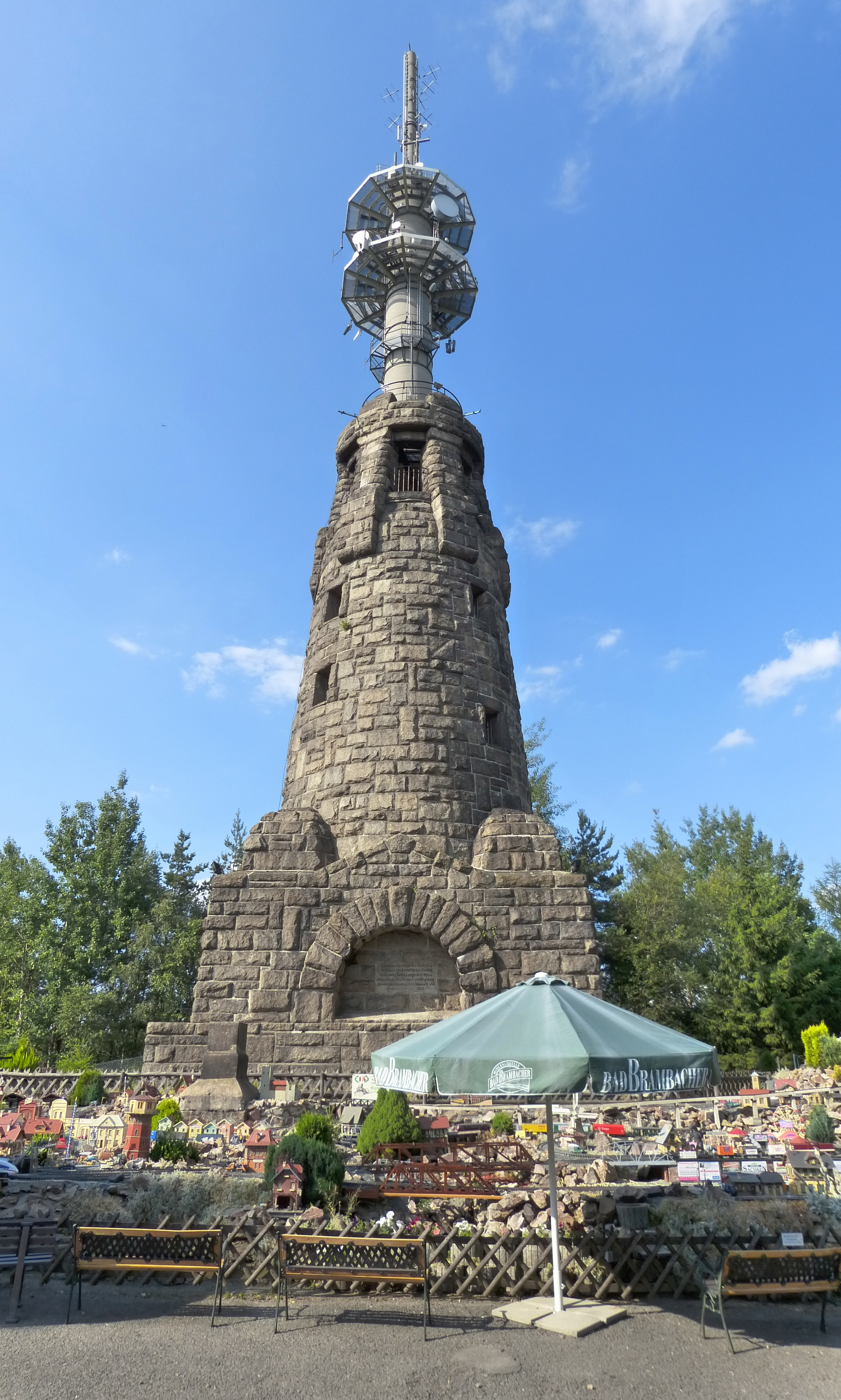 The new radio station and the historic Bismarcktower on the Cow Mountain